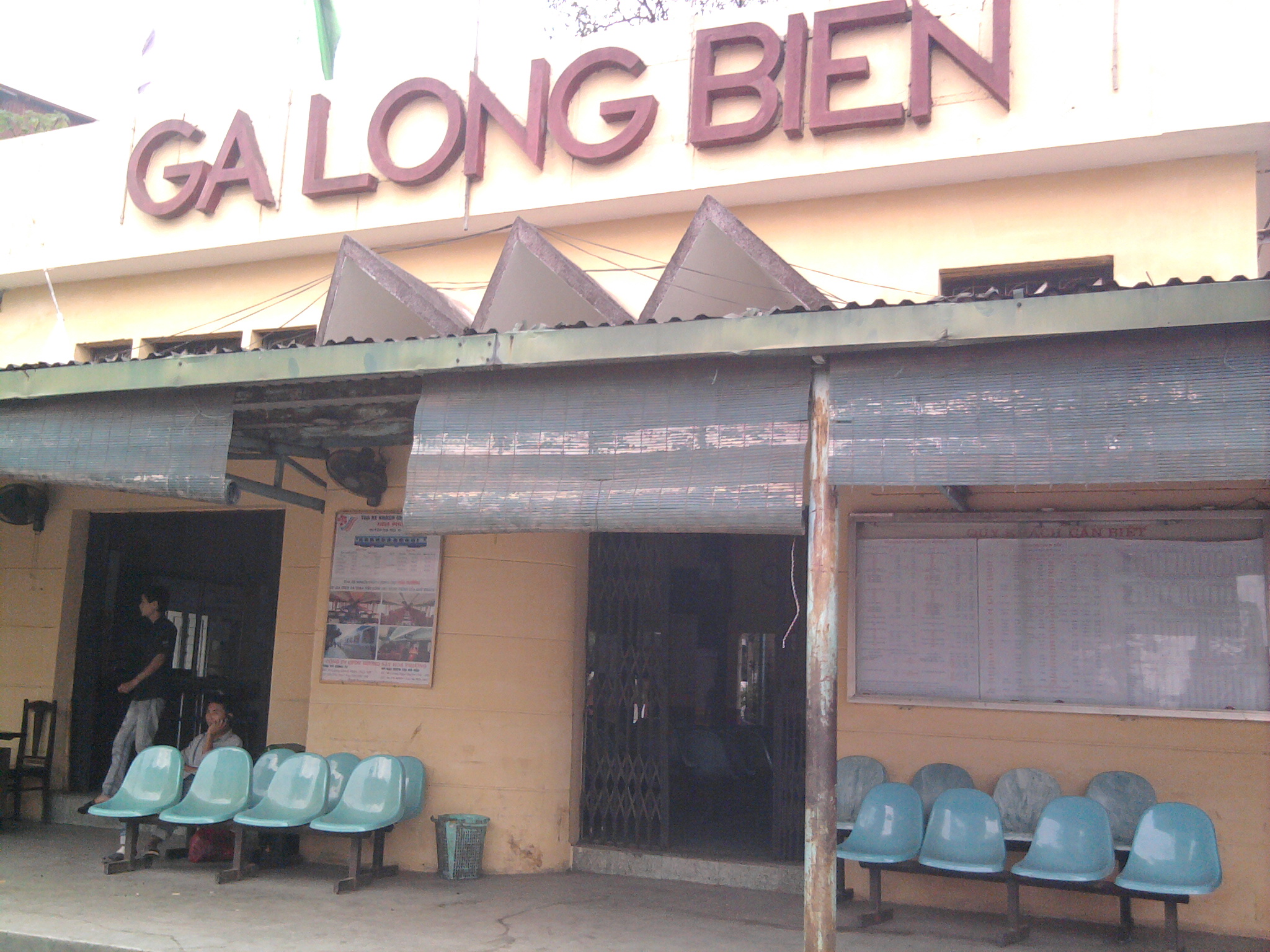 Front gate of Long Bien Station.